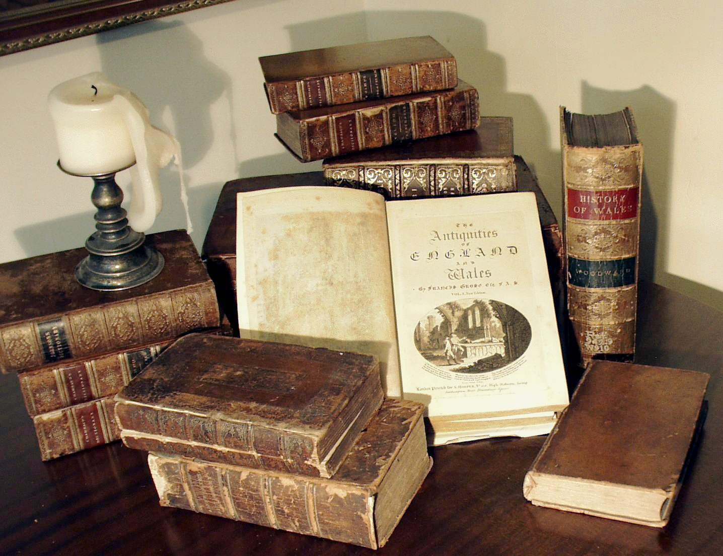 Various antiquarian books, including Francis Grose’s The Antiquities of England and Wales,; this is one of the most popular images. If you want to use it, please copy it and host it on your own site. It’d be nice if you linked back to here, though. I still have the original image from the camera, if you want to experiment with colour balance. It’s 1712x1368 pixels.